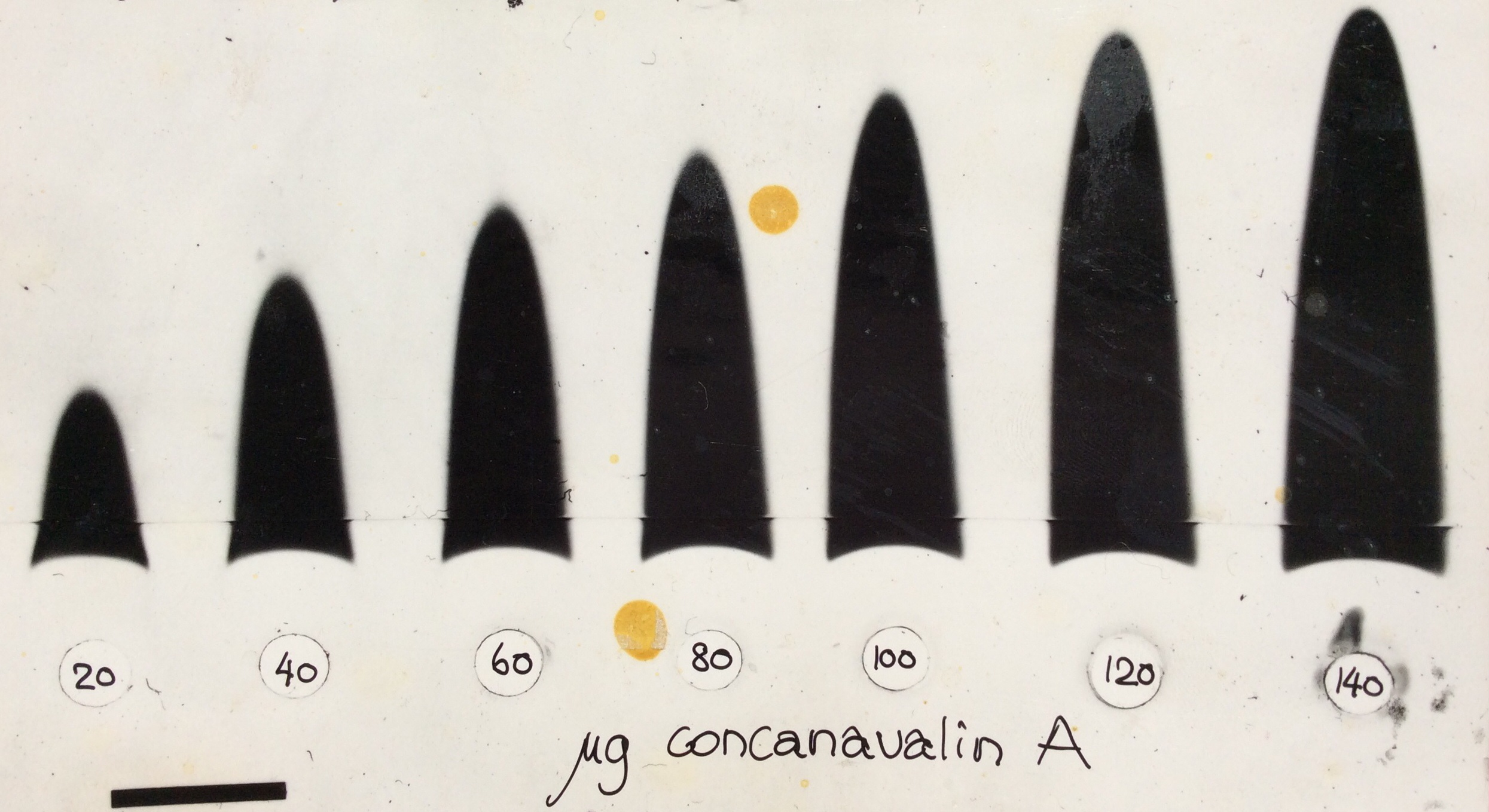 Affinity electrophoresis of concanavalin A into an agarose get containing my blood serum (3.6 microliter per square cm). The bar indicates 1 cm. Analysis performed early in the 1970's at the Protein Laboratory, University of Copenhagen